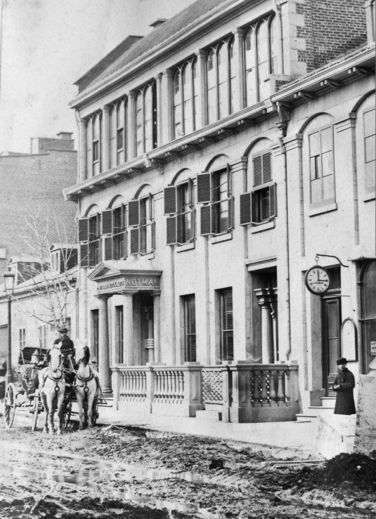 Photograph, William Notman's photographic studio, Bleury Street, Montreal, QC, 1866, William Notman (1826-1891), Silver salts on paper mounted on paper - Albumen process - 8 x 5 cm